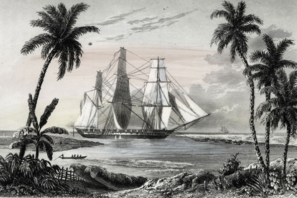 Frigate Artémise (1828)